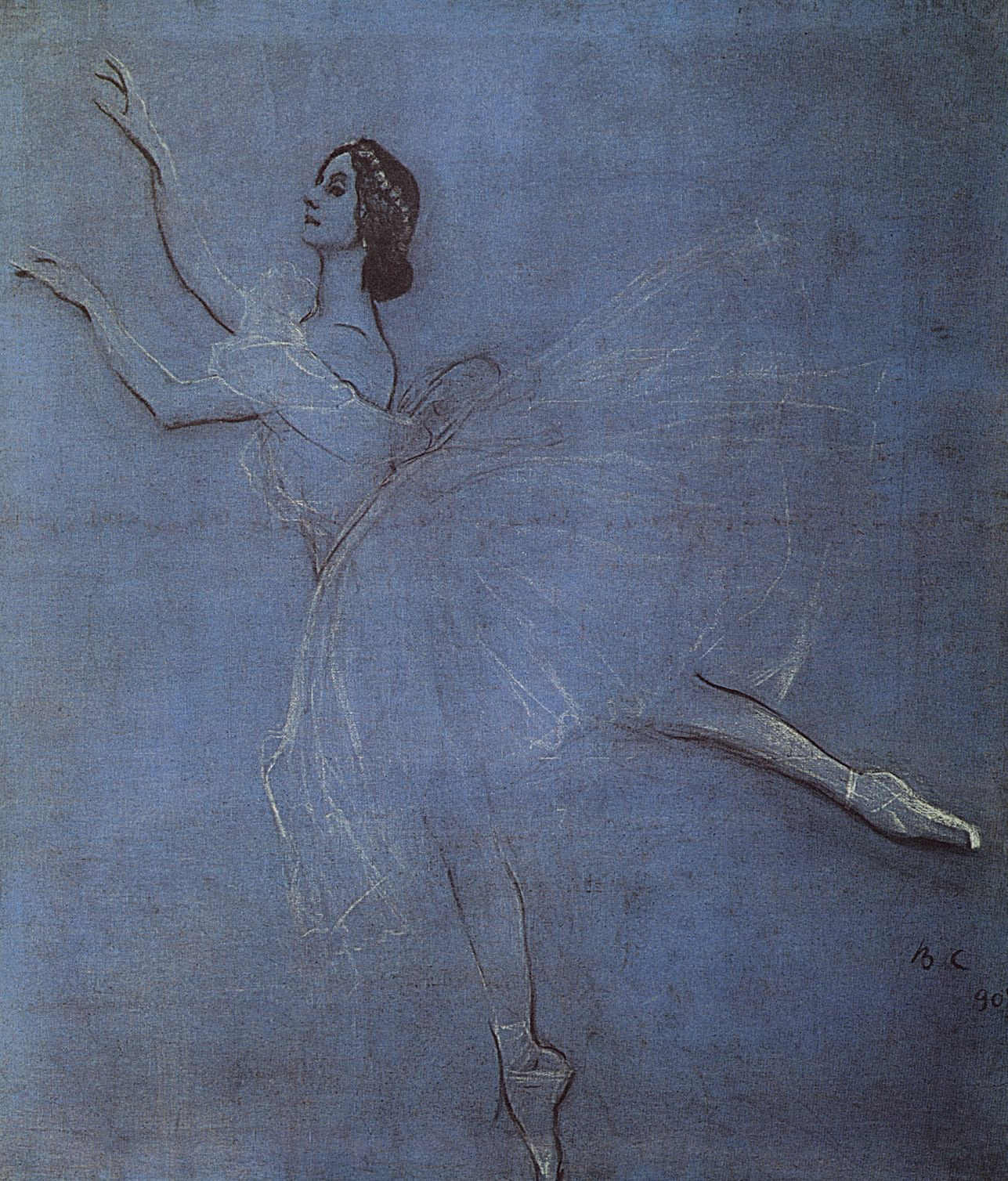 Anna Pavlova in the Ballet Sylphyde. 1909. Tempera on canvas. The Russian Museum, St. Petersburg, Russia.